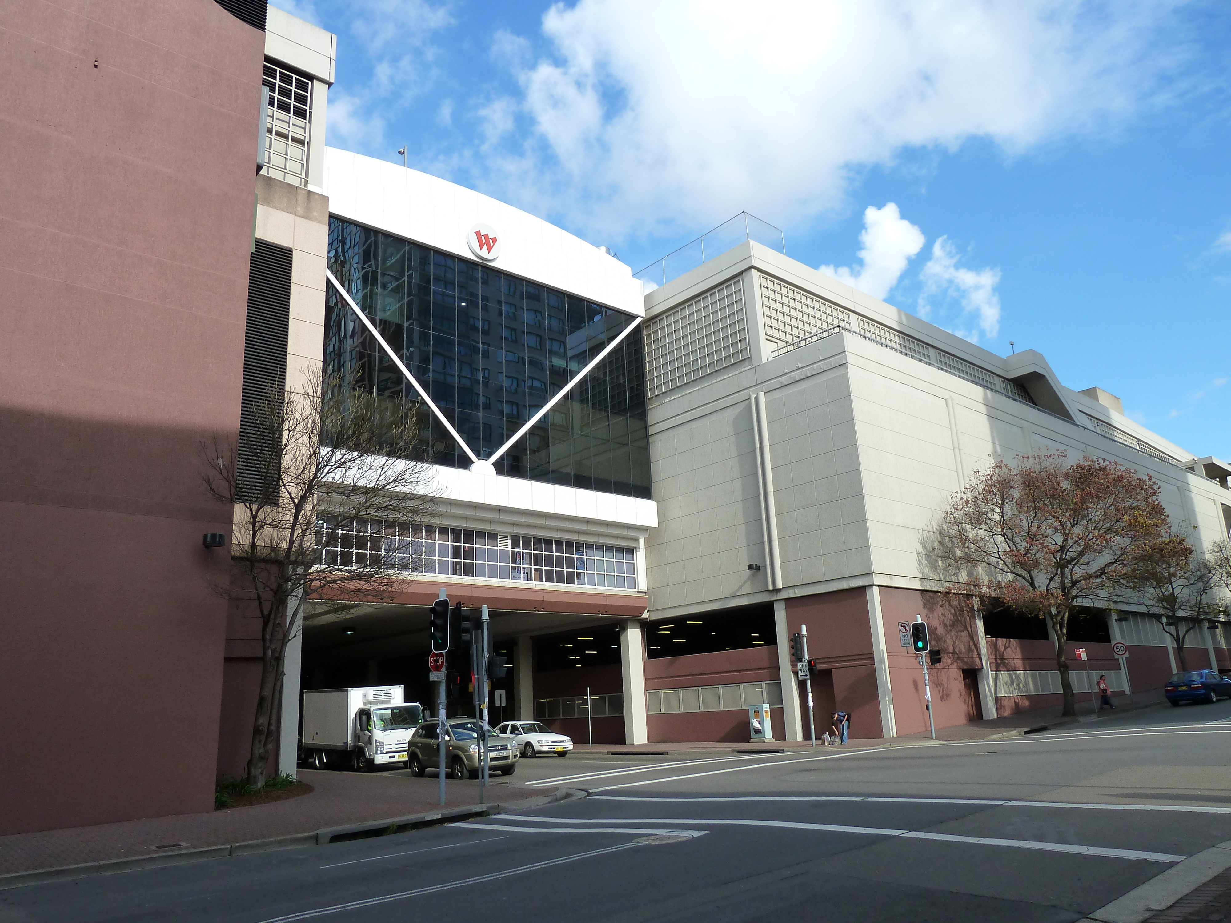 Westfield Hurstville, Hurstville, New South Wales, Australia.